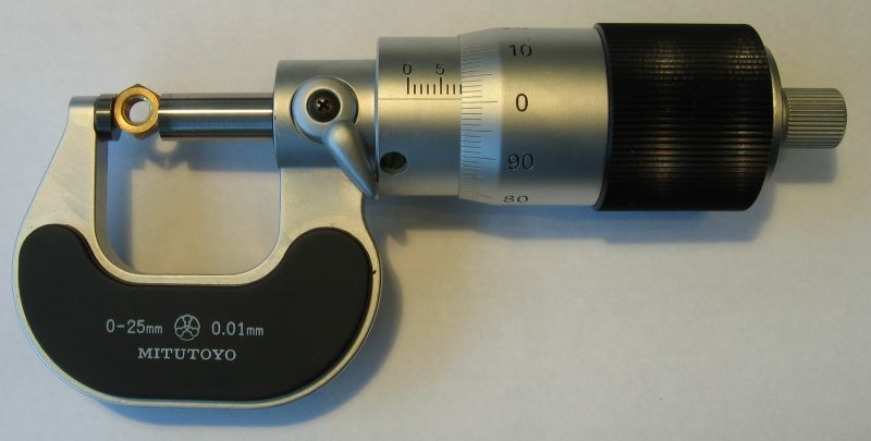 Outside micrometer (aka micrometer caliper) reading 8.01 mm